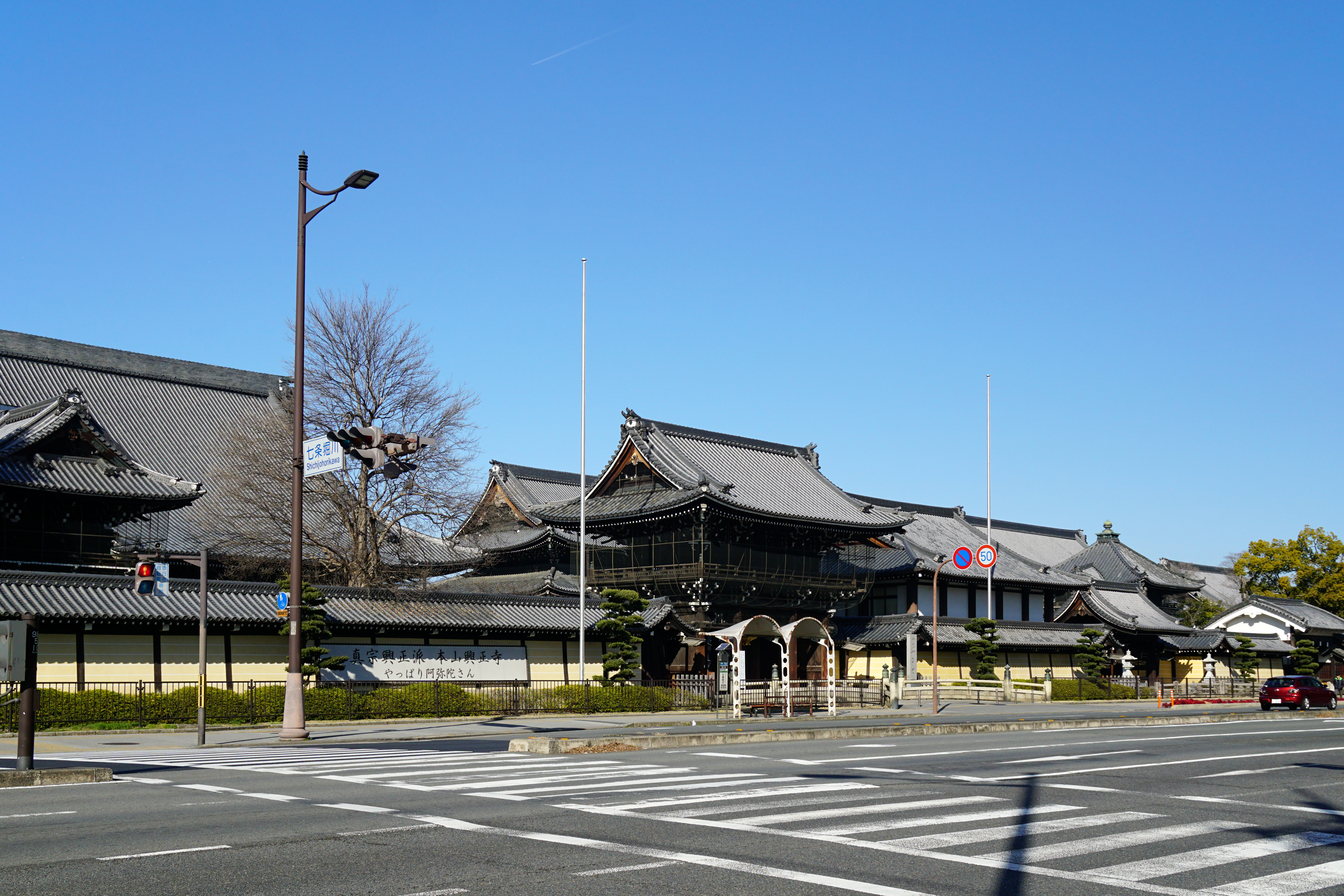 Kōshō-ji in Kyoto, Kyoto prefecture, Japan